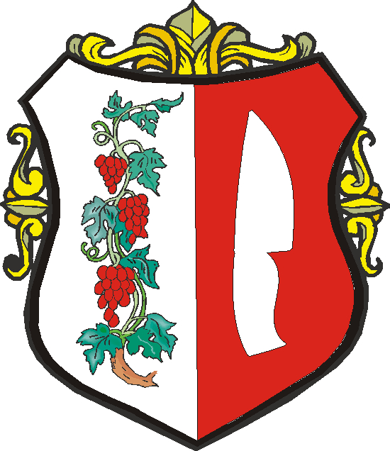 Coat of Arms of Brestovany